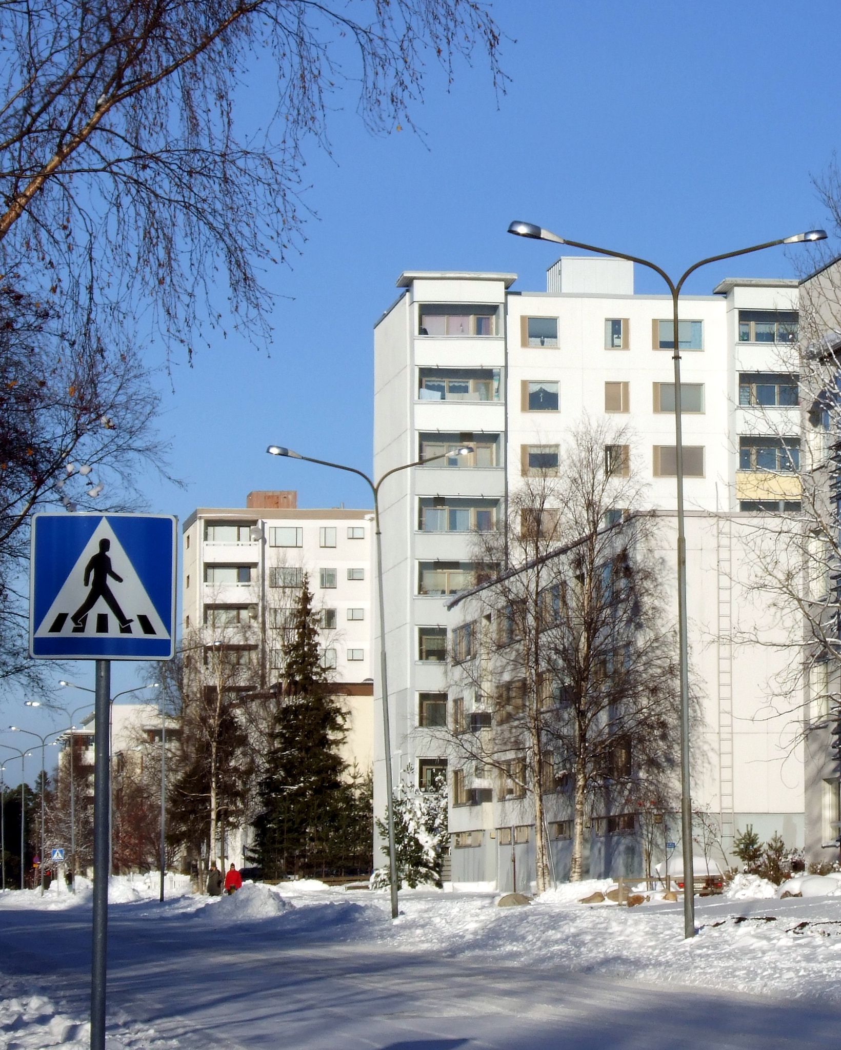 Tervakukkatie street in Rajakylä neighbourhood in Oulu, Finland.